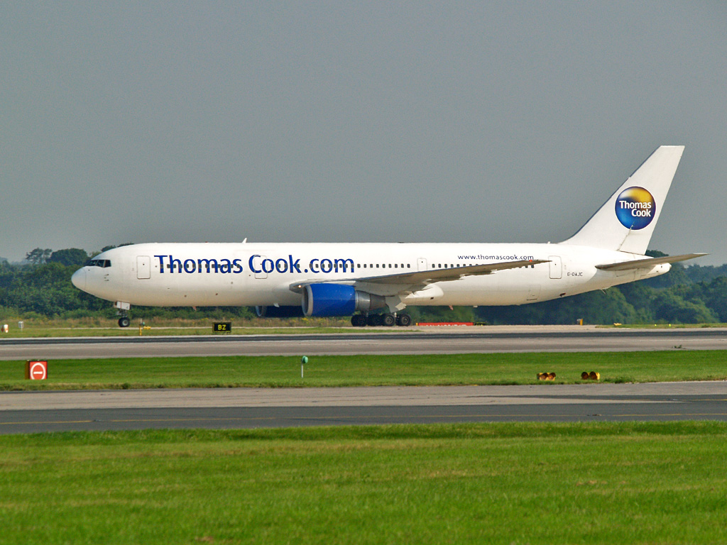 Thomas Cook Airlines Limited (formerly My Travel Airways, originally Airtours International Airways) G-DAJC, a Boeing 767-31K taxies after landing on runway 05 right at Manchester Airport. Monday 28th July 2008